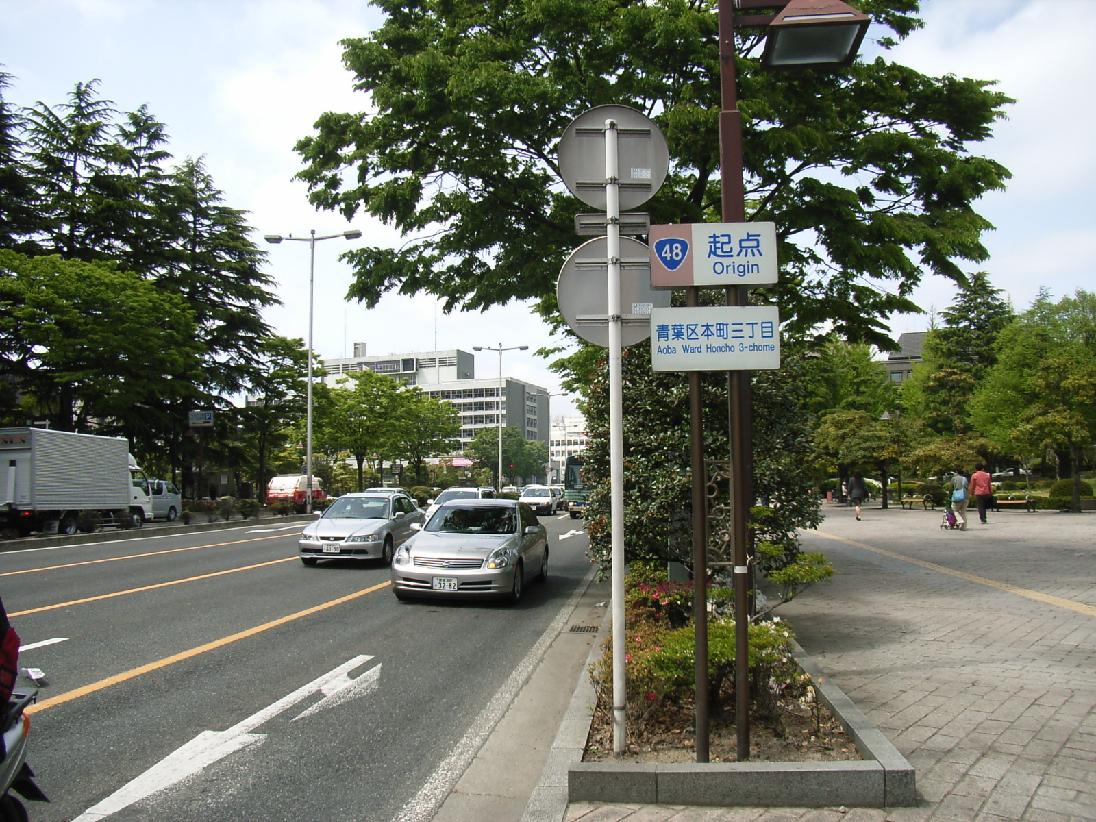 Start point of the Route 48 (National Highway 48) of Japan. Sendai, Miyagi prefecture, Japan.